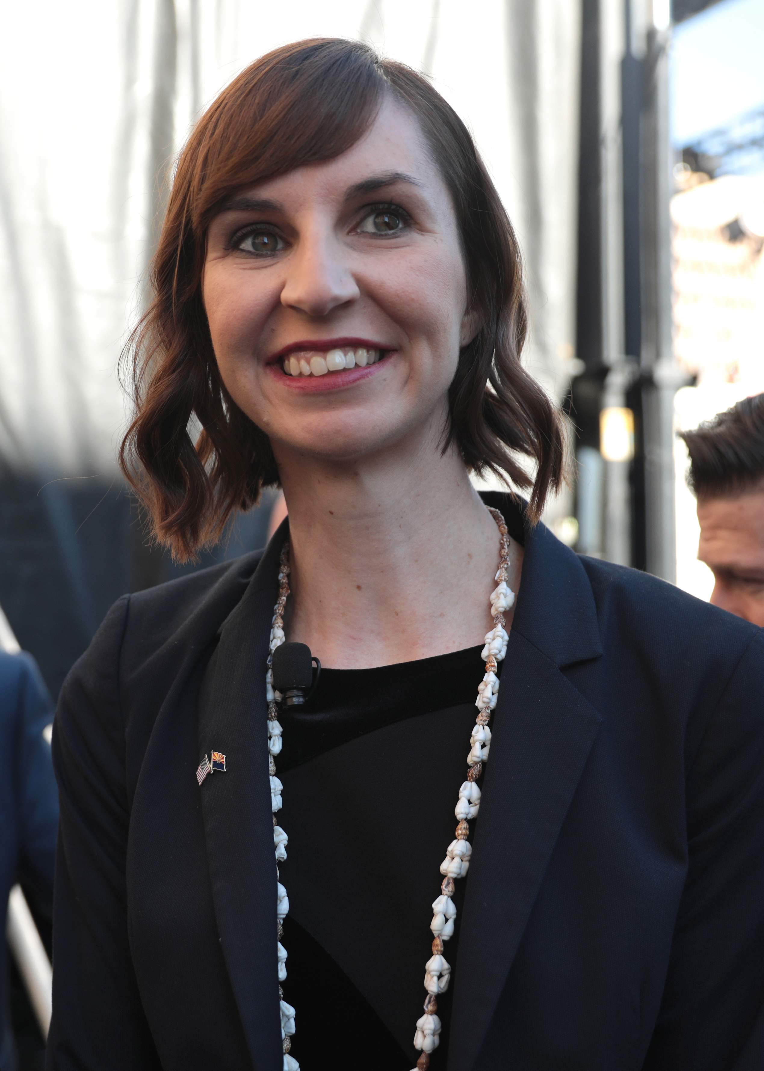 Kathy Hoffman speaking at an event in Phoenix, Arizona.